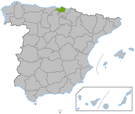 Location of the province of Biscay, in Spain. Basado en: ProvPont.jpg Source: Designed by Satesclop. Original picture, designed by Sobreira.